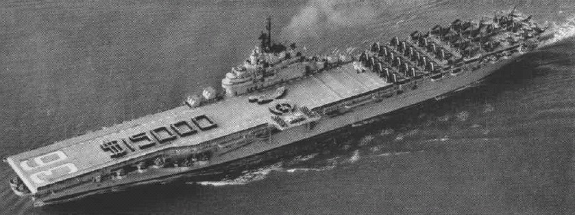 The U.S. aircraft carrier USS Antietam (CV-36) returning from her deployment to Korea in March 1952. The crew had raised US $15,000 for the Shriners fund for crippled children, and formed both the numbers "$15,000" on the bow, and the Shriners logo amidships.